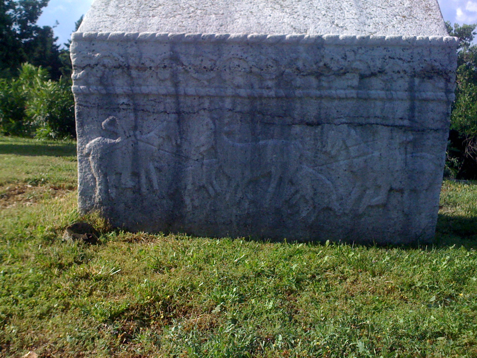 Stećak in Neum